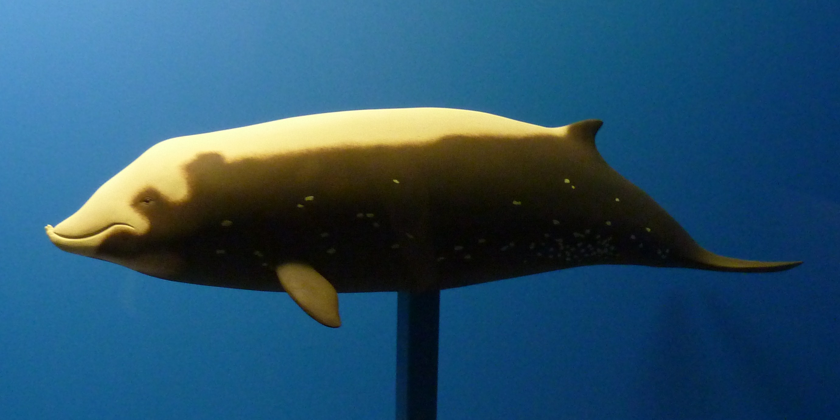 Cuvier's beaked whale (Ziphius cavirostris)